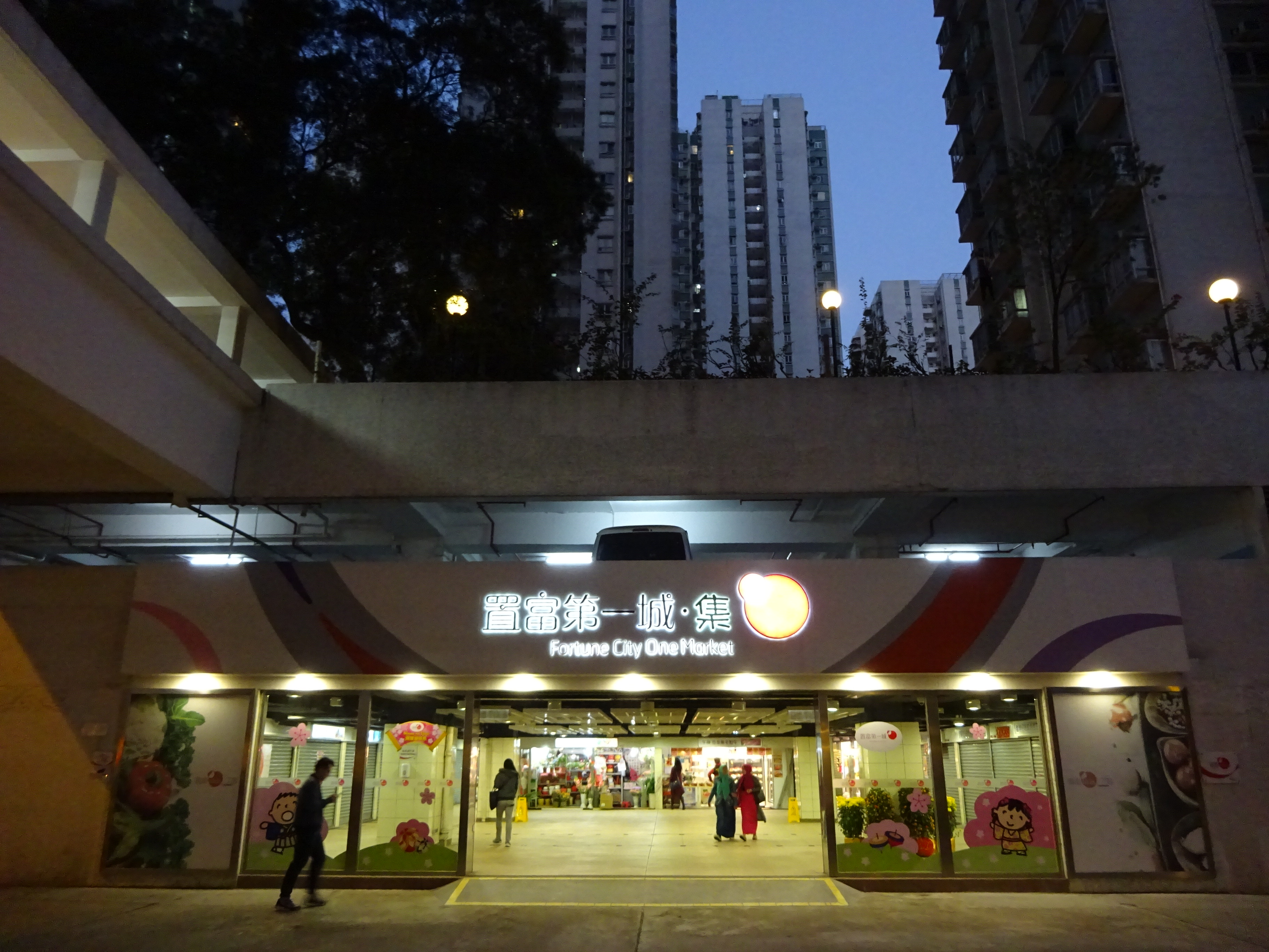 沙田第一城 Shatin Fortune City One Market, Pak Tak Street, Sha Tin, Hong Kong in Feb-2016